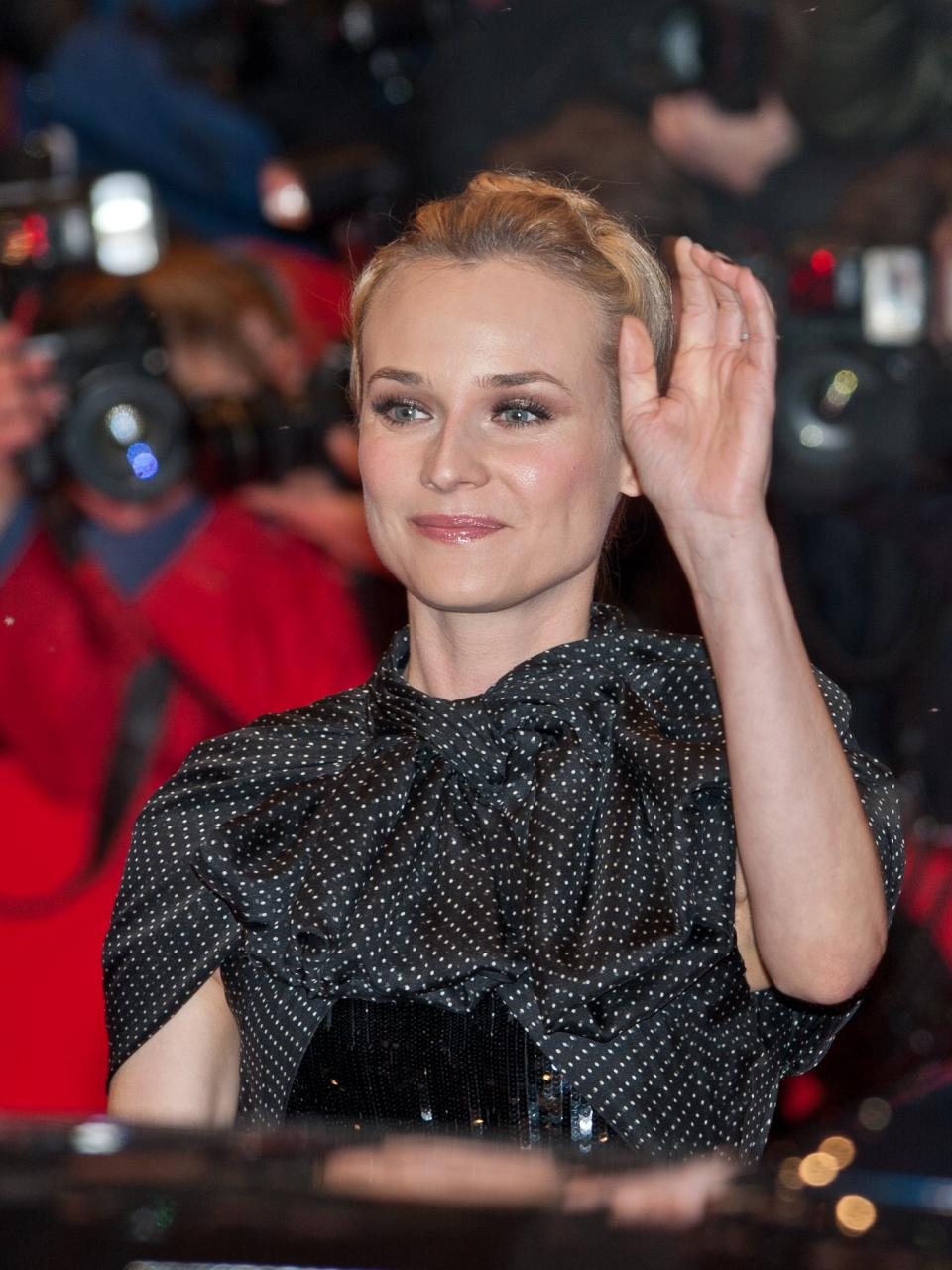 German actress Diane Kruger, cast of the film "Les adieux à la reine", Opening of the 62nd Berlin International Film Festival